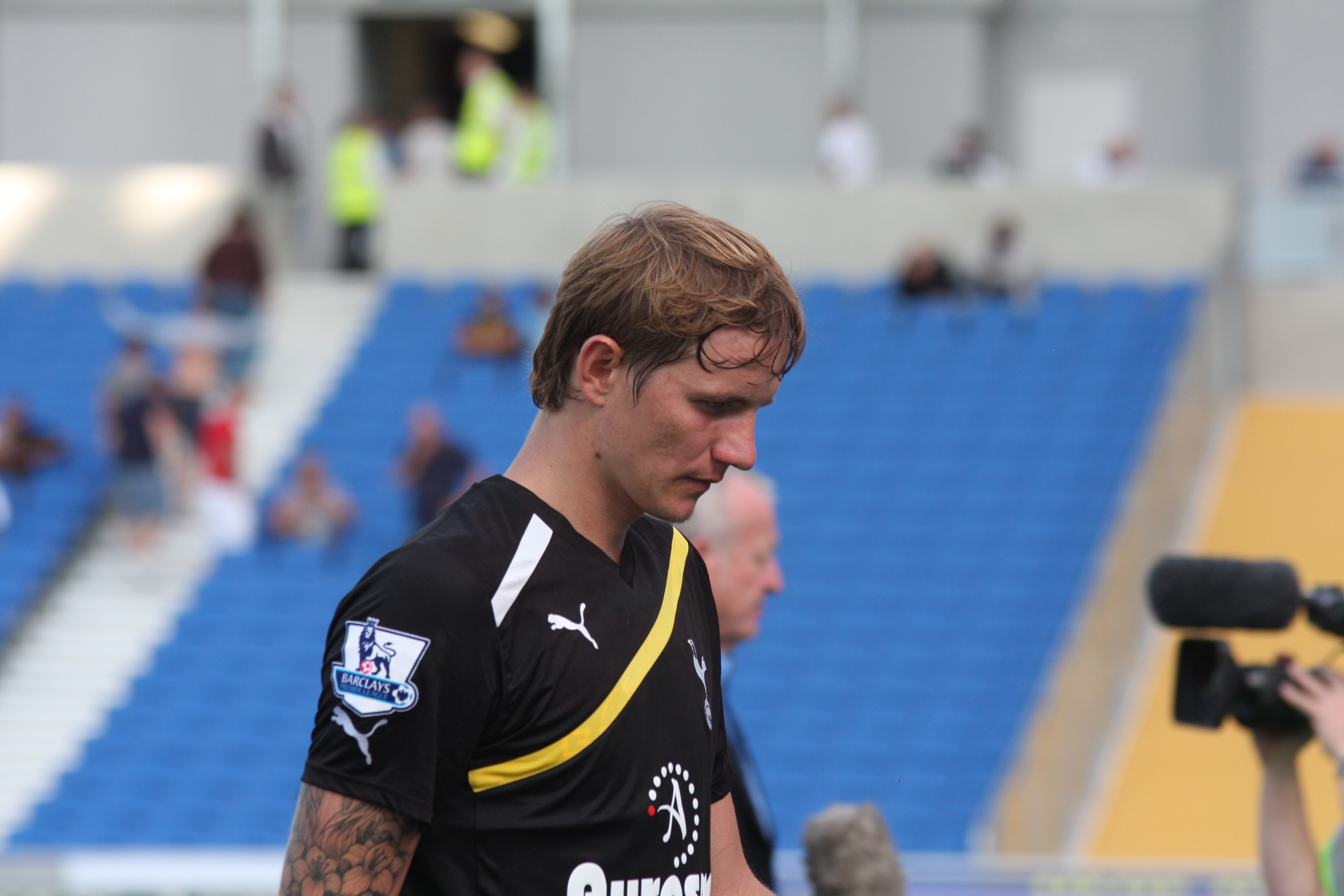 Roman Pavlyuchenko of Tottenham Hotspur